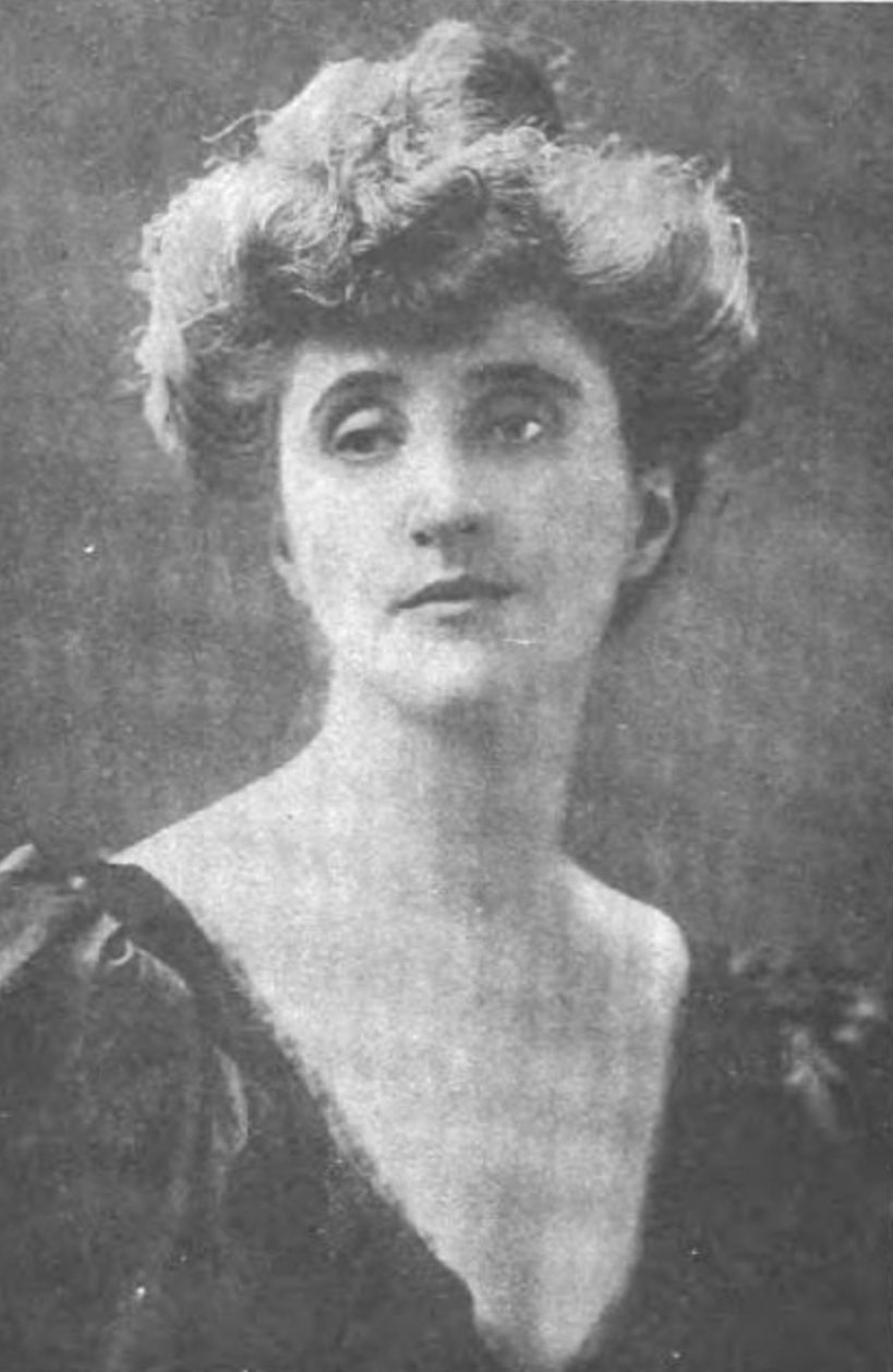 Dora Ohlfsen-Bagge (1869–1948), Australian artist living in Rome.